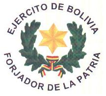 Drawing realized to hand. Retouched in the paint and in the photoshop.